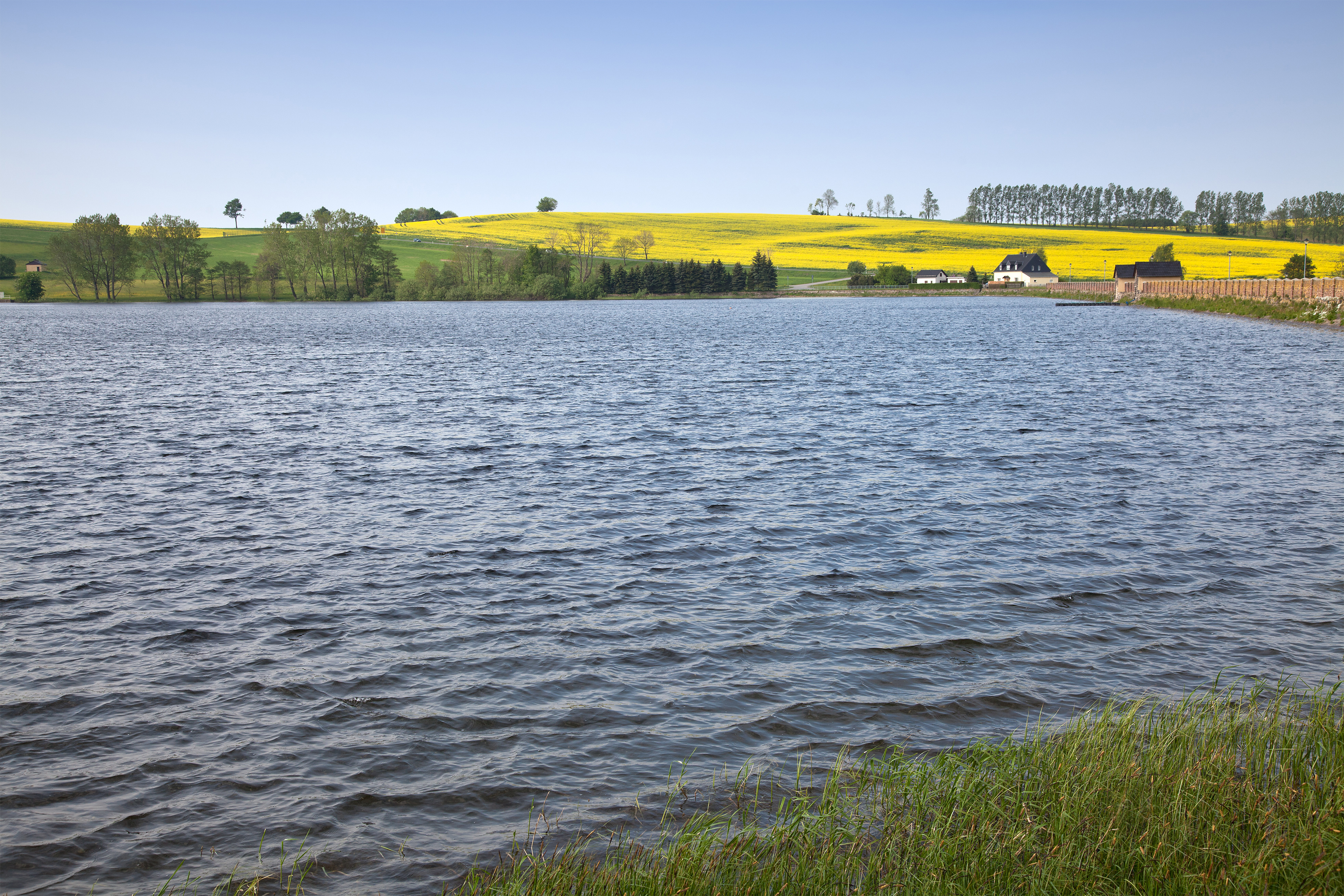 Großhartmannsdorf, lake "Oberer Großhartmannsdorfer Teich"